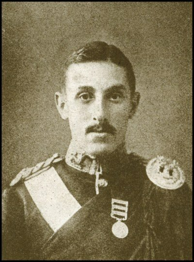 2nd Boer War Victoria Cross Recipient.